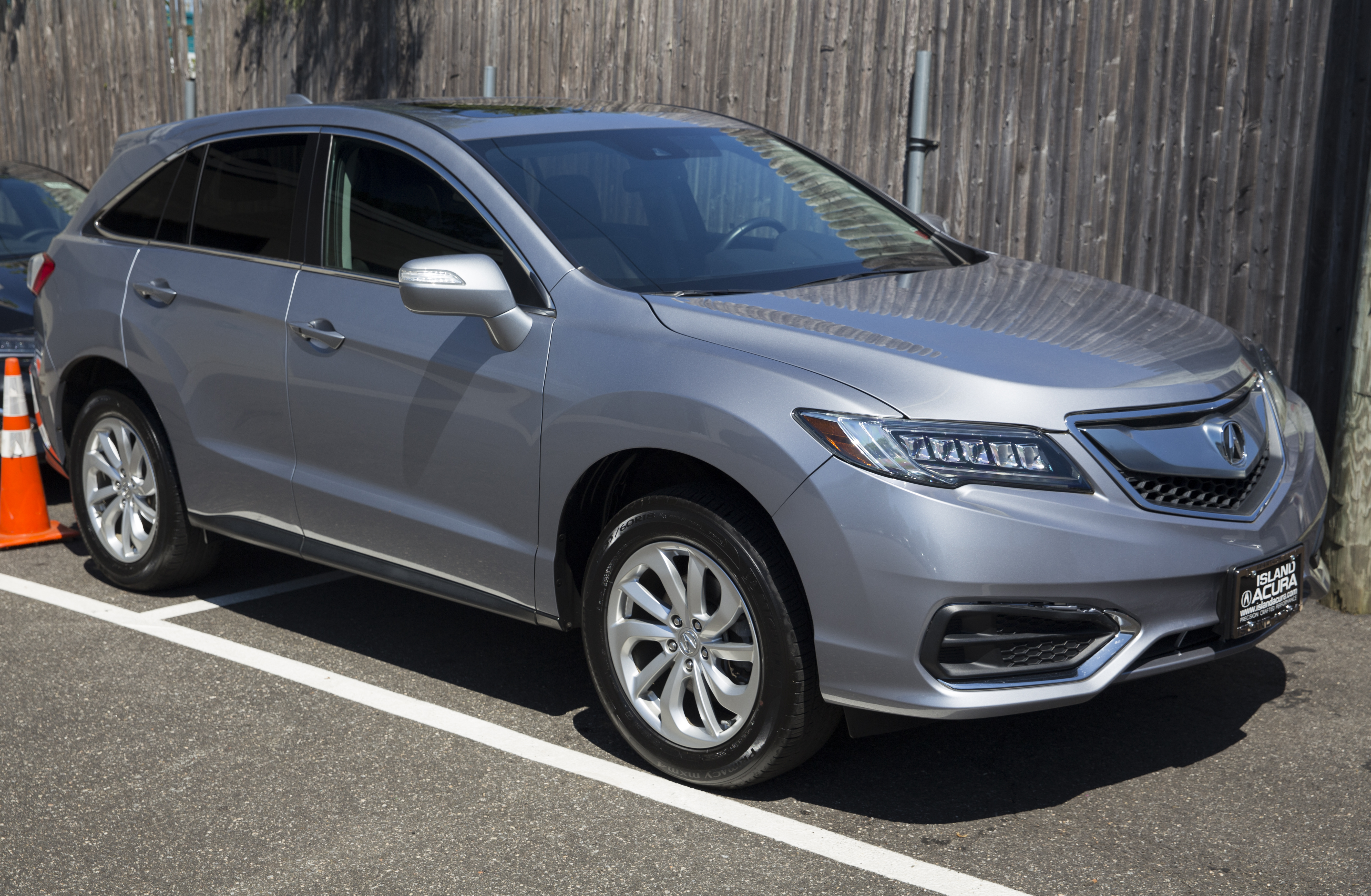 A 2016 Acura RDX base 4WD in Slate Silver Metallic with Ebony with a 6-speed automatic.